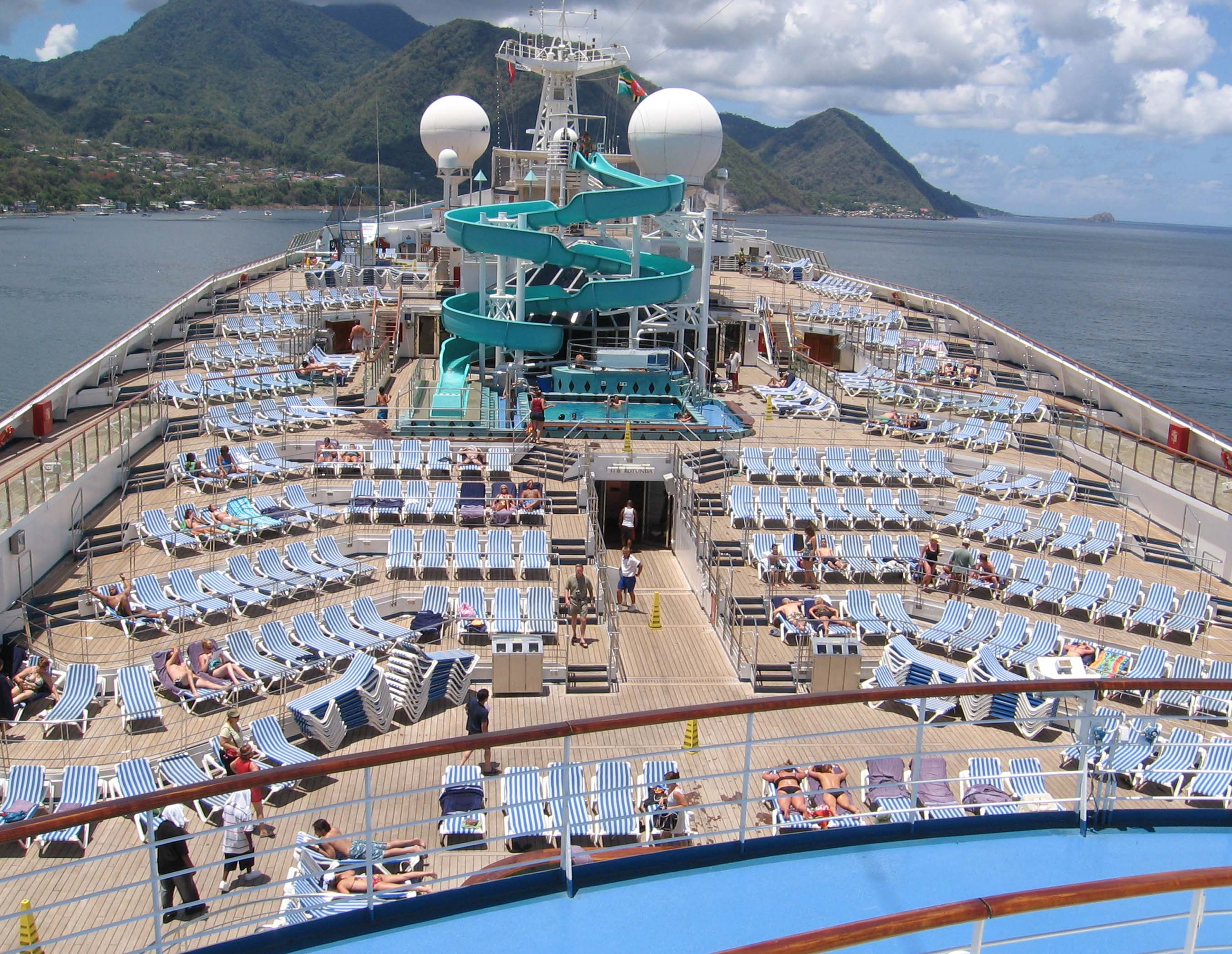 Deck of the Carnival Destiny while docked in Roseau, Dominica on 7/3/07